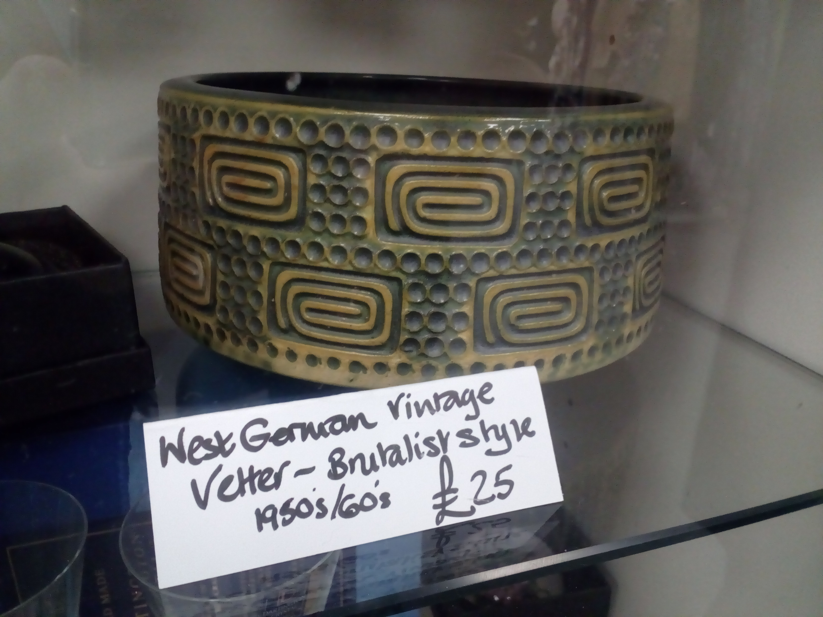 Brutalist style 'Vetter' bowl (West Germany, 1950s/1960s), for sale at a charity (thrift) shop in Birmingham, England.